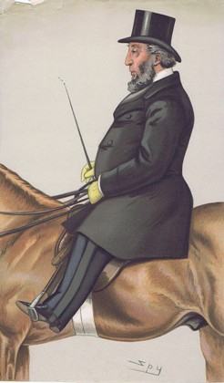 Caricature of Sir John Whitaker Ellis. Caption read "The Lord Mayor".